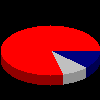 imagefilledarc sample